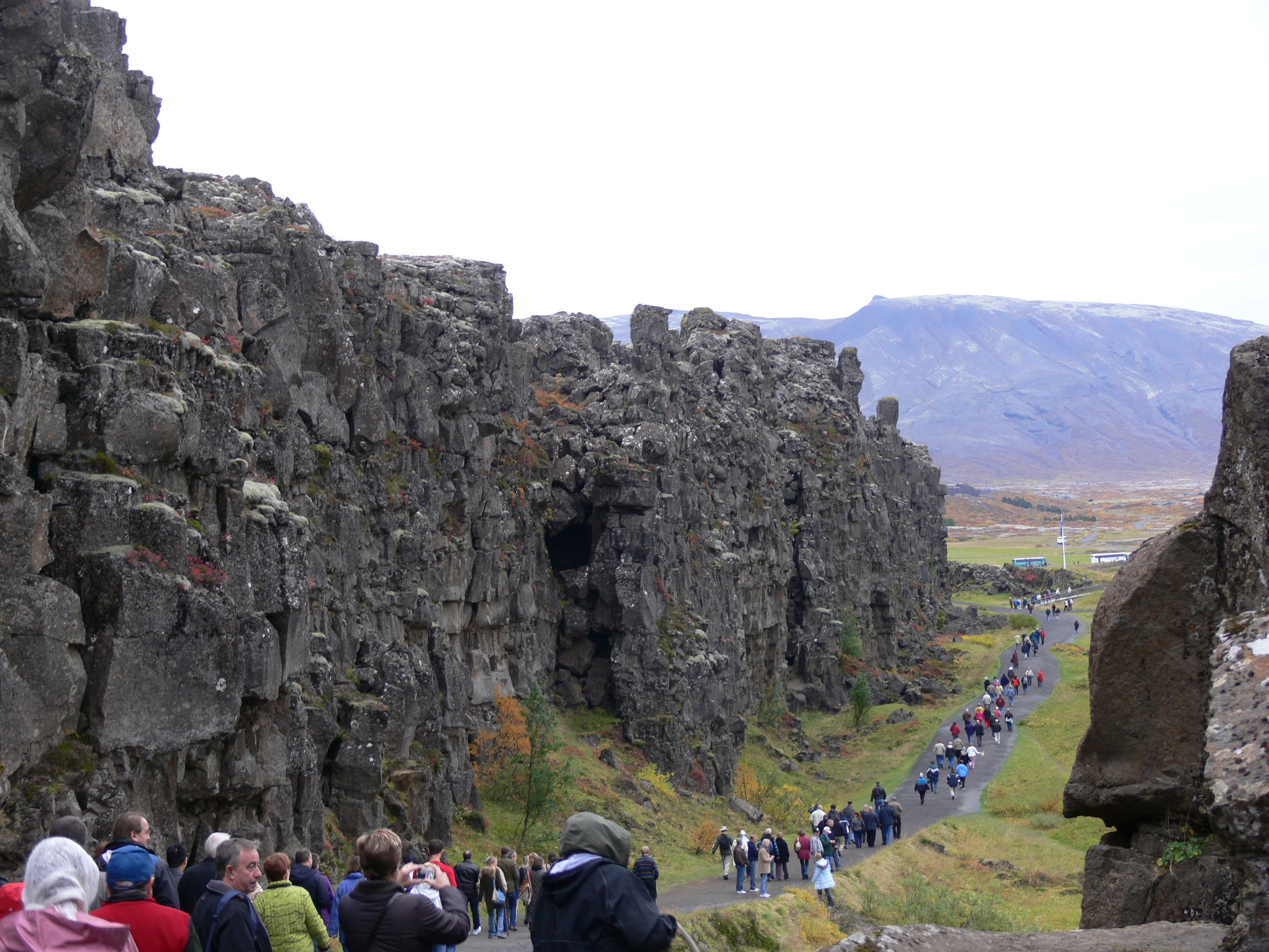 Rock outcrop in Iceland, a visible surface feature of the Mid-Atlantic Ridge, the Easternmost edge of the North American plate. A popular destination for tourists in Iceland